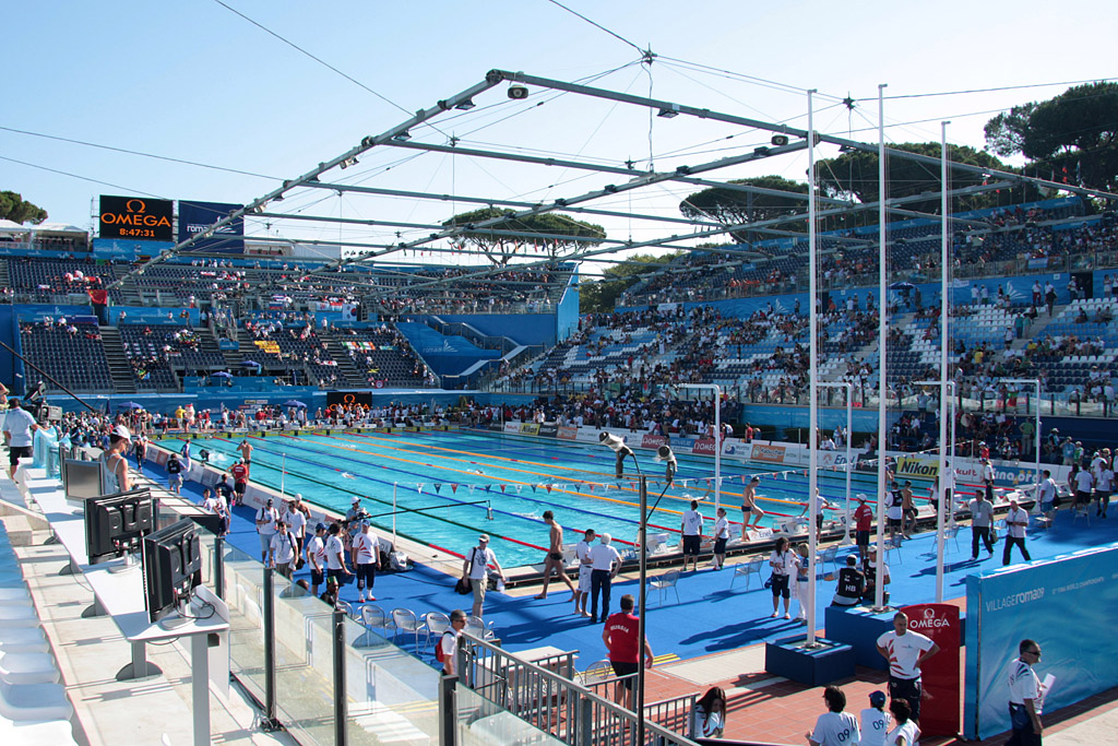 Foro Italico overview - 2009 World Aquatics Championships